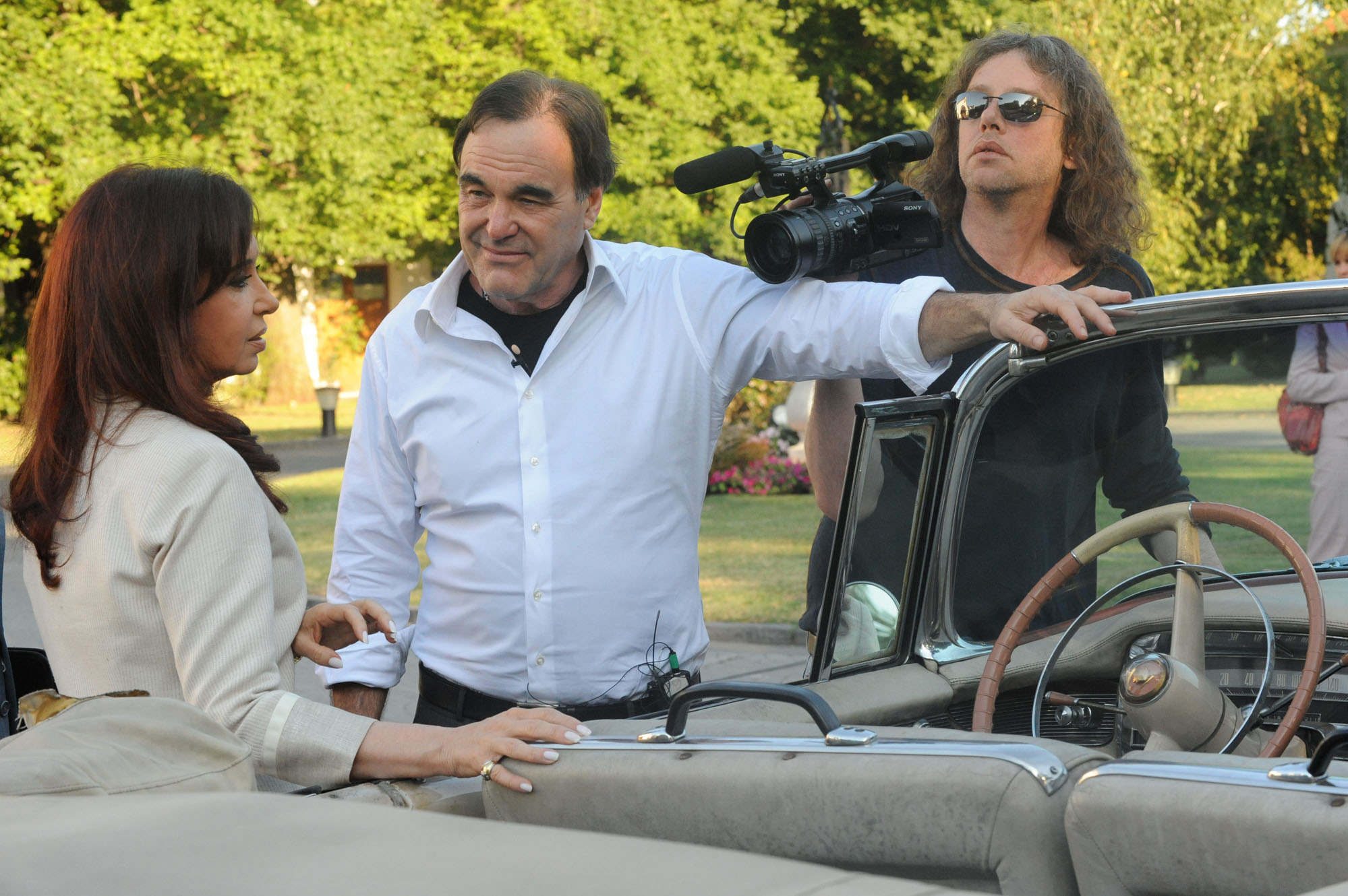 Oliver Stone and Cristina Fernandez de Kirchner (President of Argentina), at the Presidential Residence in Olivos, while she is being filmed for new Stone's picture, a documental about progresists presidents in Latin America.